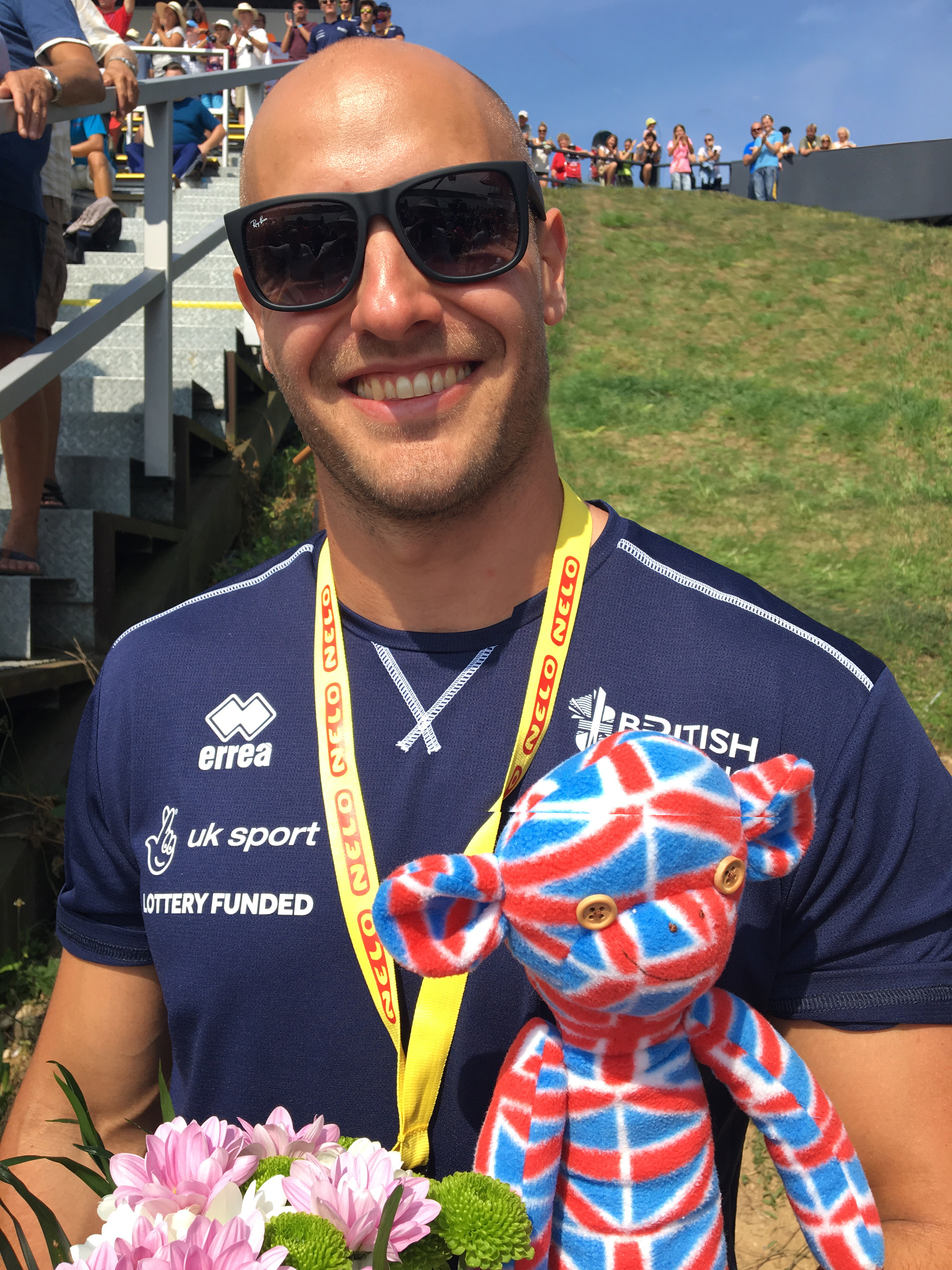 Liam Heath at World Championships in Racice in 2017